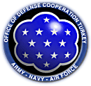 The organization's logo. I believe they operate under the USAFE.